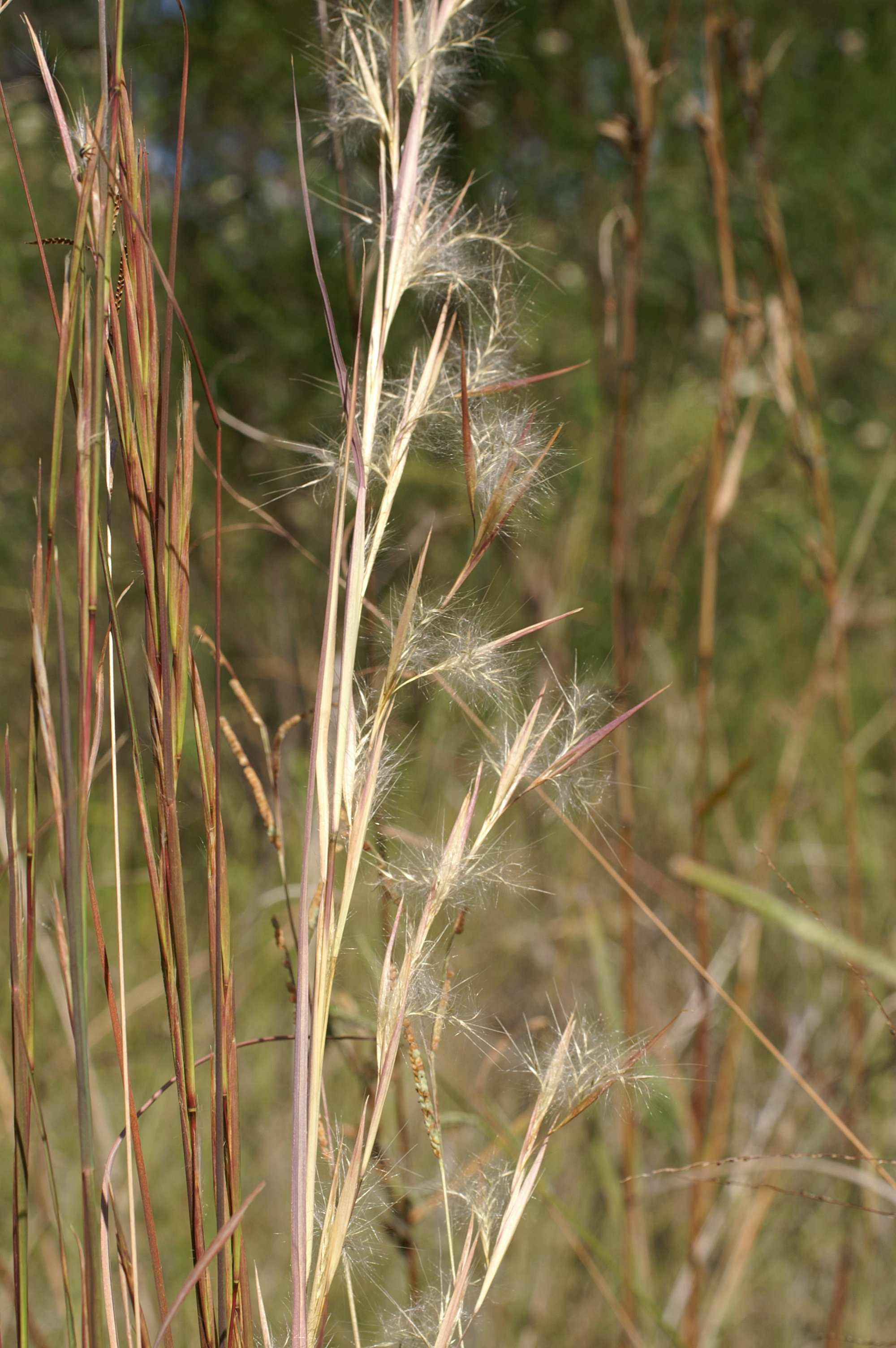 Introduced, warm-season, perennial, erect, tufted grass to 120 cm tall; tinged with red-purple when young, becoming tawny-bronze at maturity. Flowerheads are long, narrow spatheate panicles that pull apart easily when young. Spikelets are paired, 2-flowered, 3 mm long and awned; 2 hairy branches are attached to each awned spikelet. Flowers in autumn. Found on low fertility (especially low phosphorus) soils such as granites. Occurs along roadsides and in pastures, often where there has been some form of disturbance (e.g. cultivation or burning). Poor quality species that can dominate pastures on low fertility soils and where grazing pressure is light or absent. An indicator of low fertility soils and low grazing pressure. Mainly spread by wind or slashing of seeding plants. However, regular close slashing in February, March and April will help reduce plant abundance. Abundance declines with increased fertility as it is unresponsive to fertiliser and other species become more competitive. Abundance declines with increased grazing pressure as it has high growing points which are susceptible to trampling and grazing.